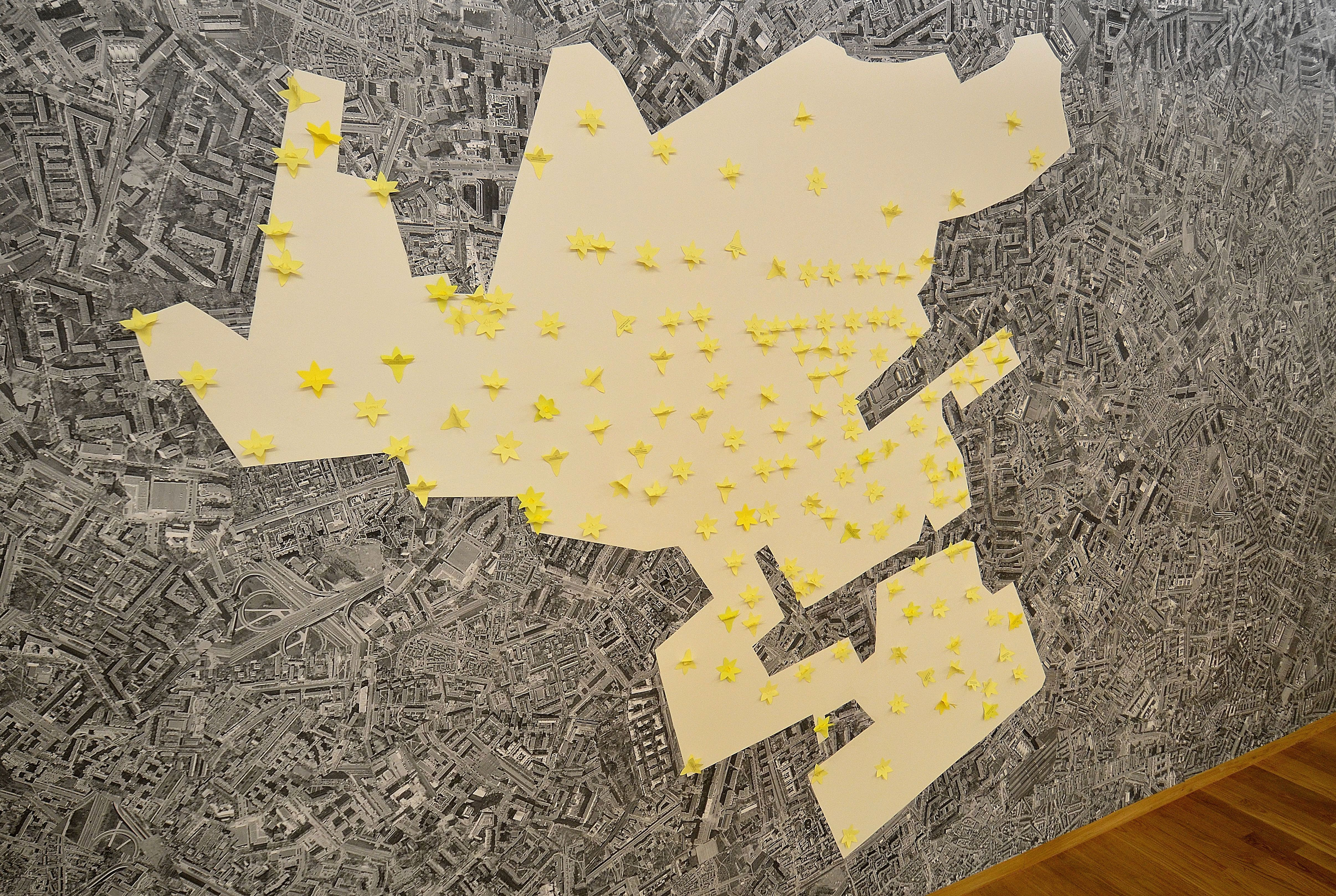 Daffodil carpet. 70th Anniversary of the Warsaw Ghetto Uprising, Museum of the History of the Polish Jews in Warsaw